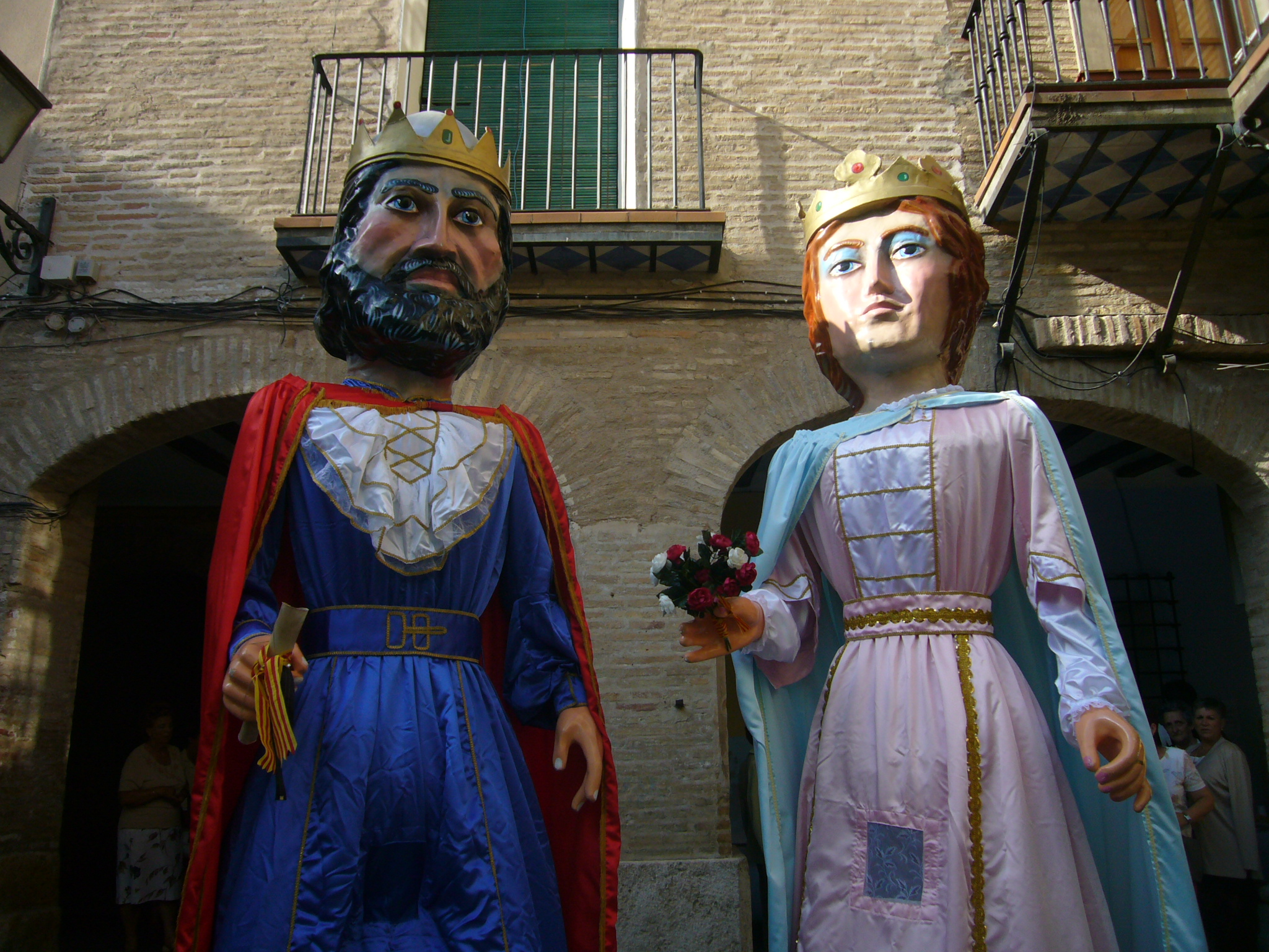 Gigantes Borja (Zaragoza)